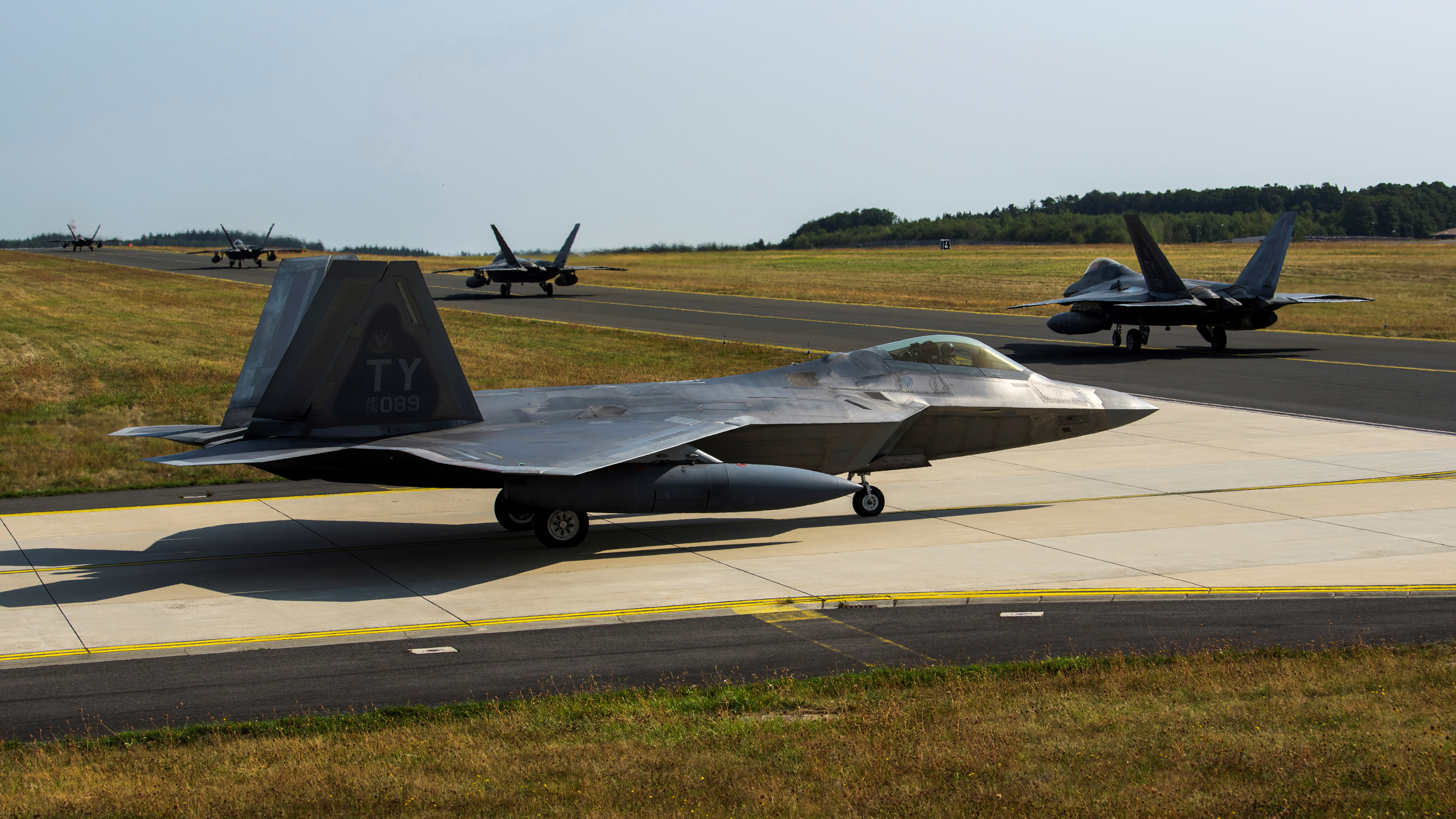 Several USAF F-22 Raptor prepare for takeoff at Spangdahlem Air Base in Germany to fly back to Tyndall Air Base in Florida. They just had an intense training exercise for several weeks with different NATO Air Forces over whole Europe.